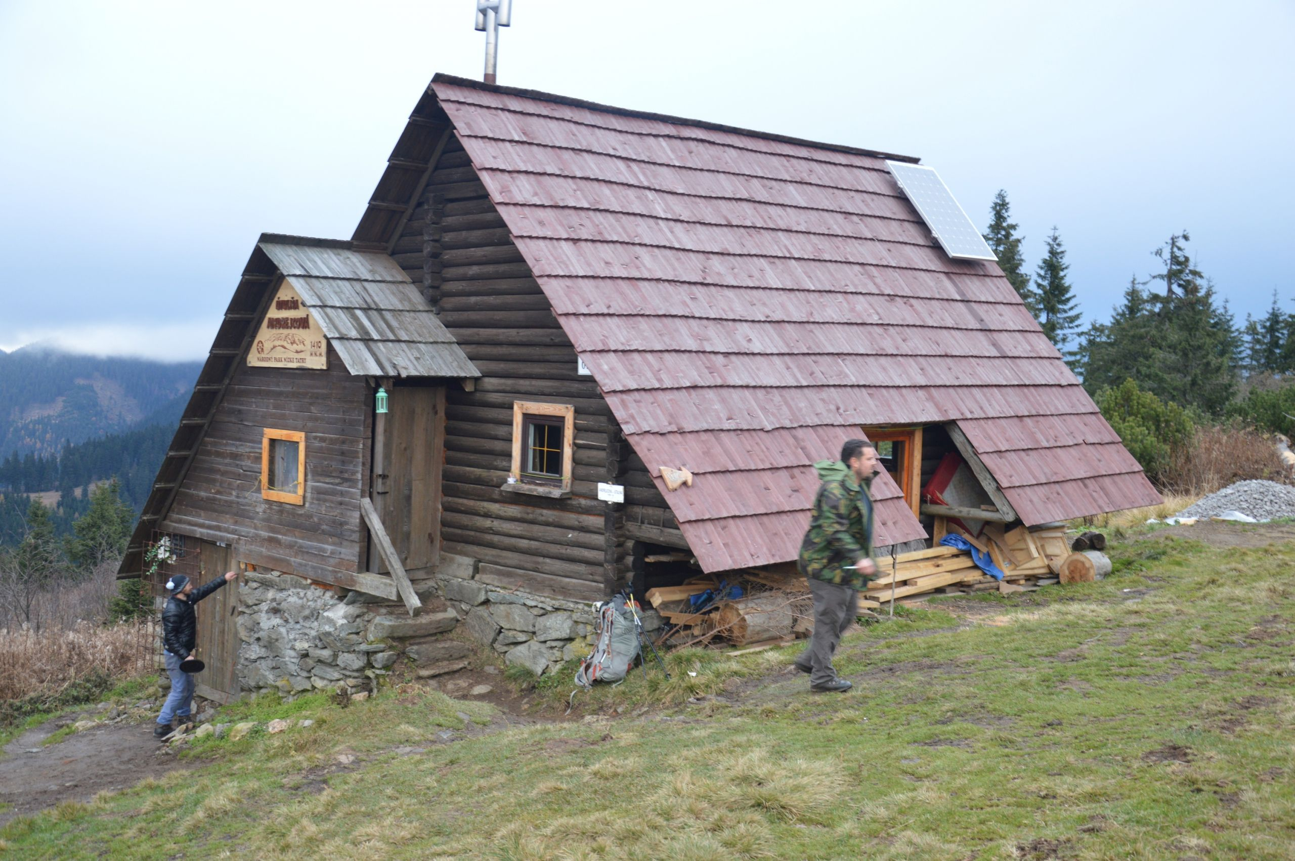 Andrejcová hut in Low Tatras